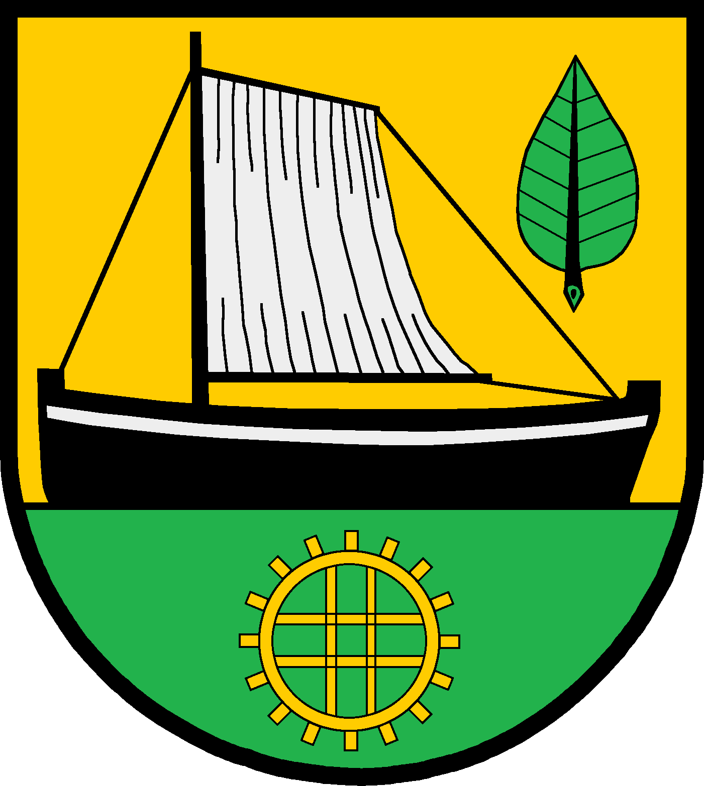 Coat of arms of the German municipality Buchhorst in Schleswig-Holstein